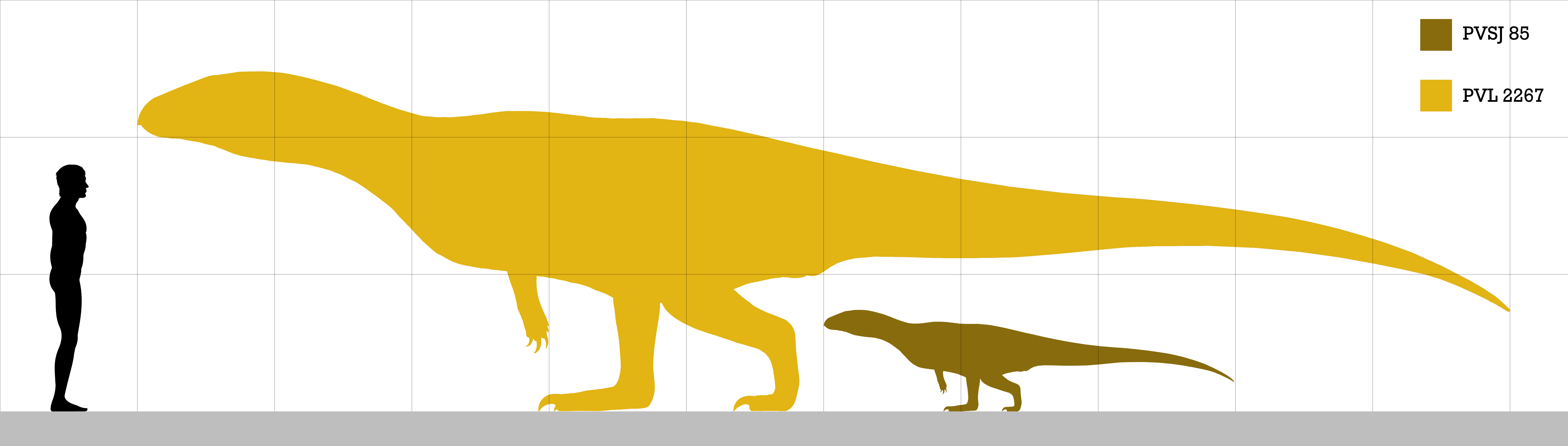 Size comparison of the shuvosaurid Sillosuchus compared to a 1.8 m tall man. The holotype PVSJ 85 is estimated to 3 m (9.8 ft) long, however, the specimen PVL 2267 (isolated vertebra) suggests that it could grow much larger; with an estimated size of 10 m (33 ft).[1]